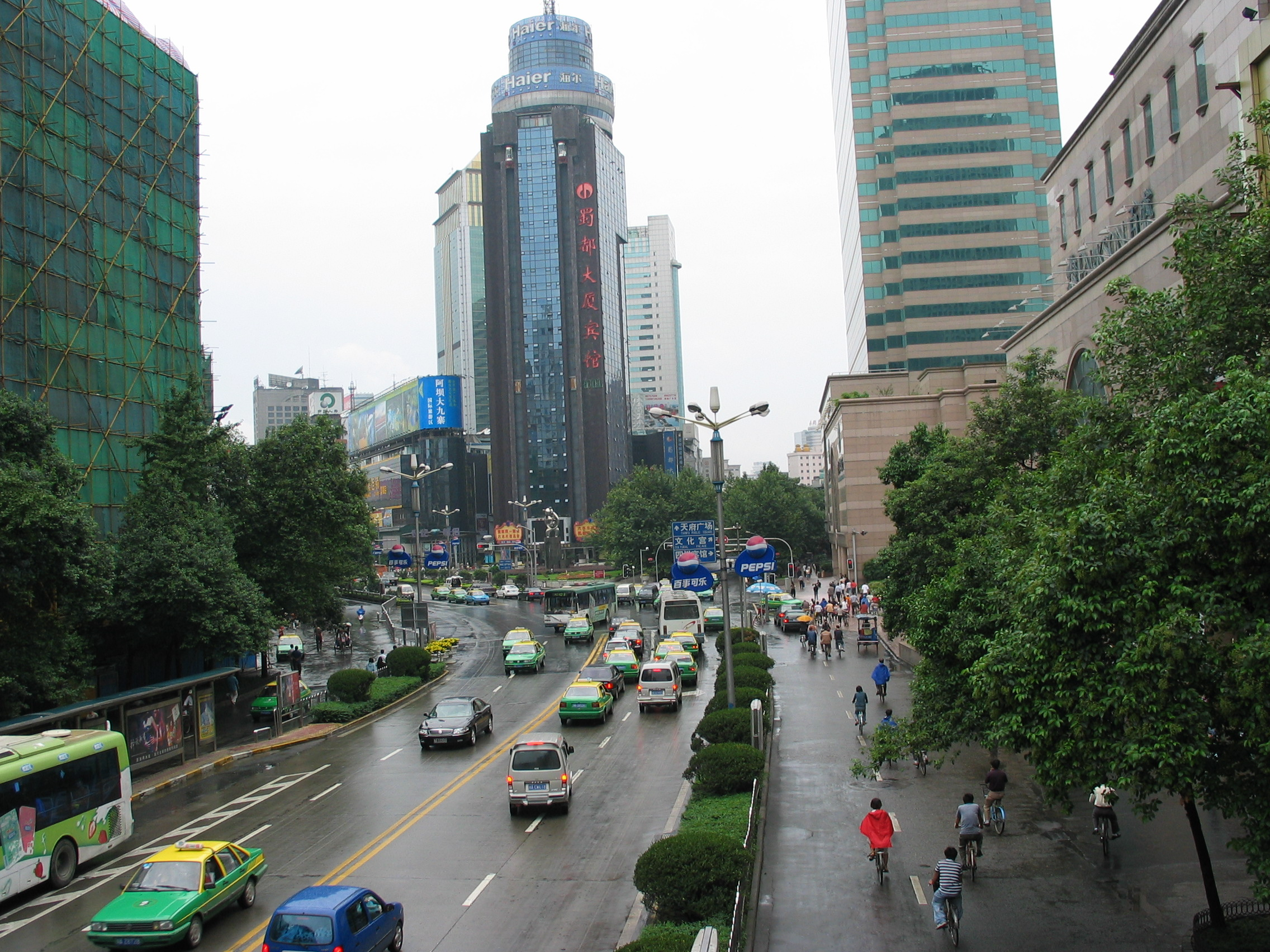 Street scene, Chengdu, Sichuan, China